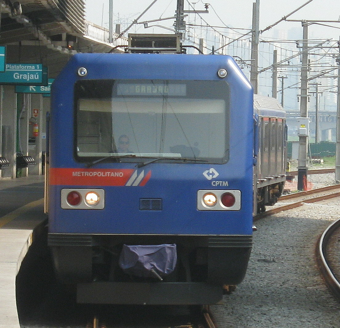 Siemens 3000 train at station Jurubatuba